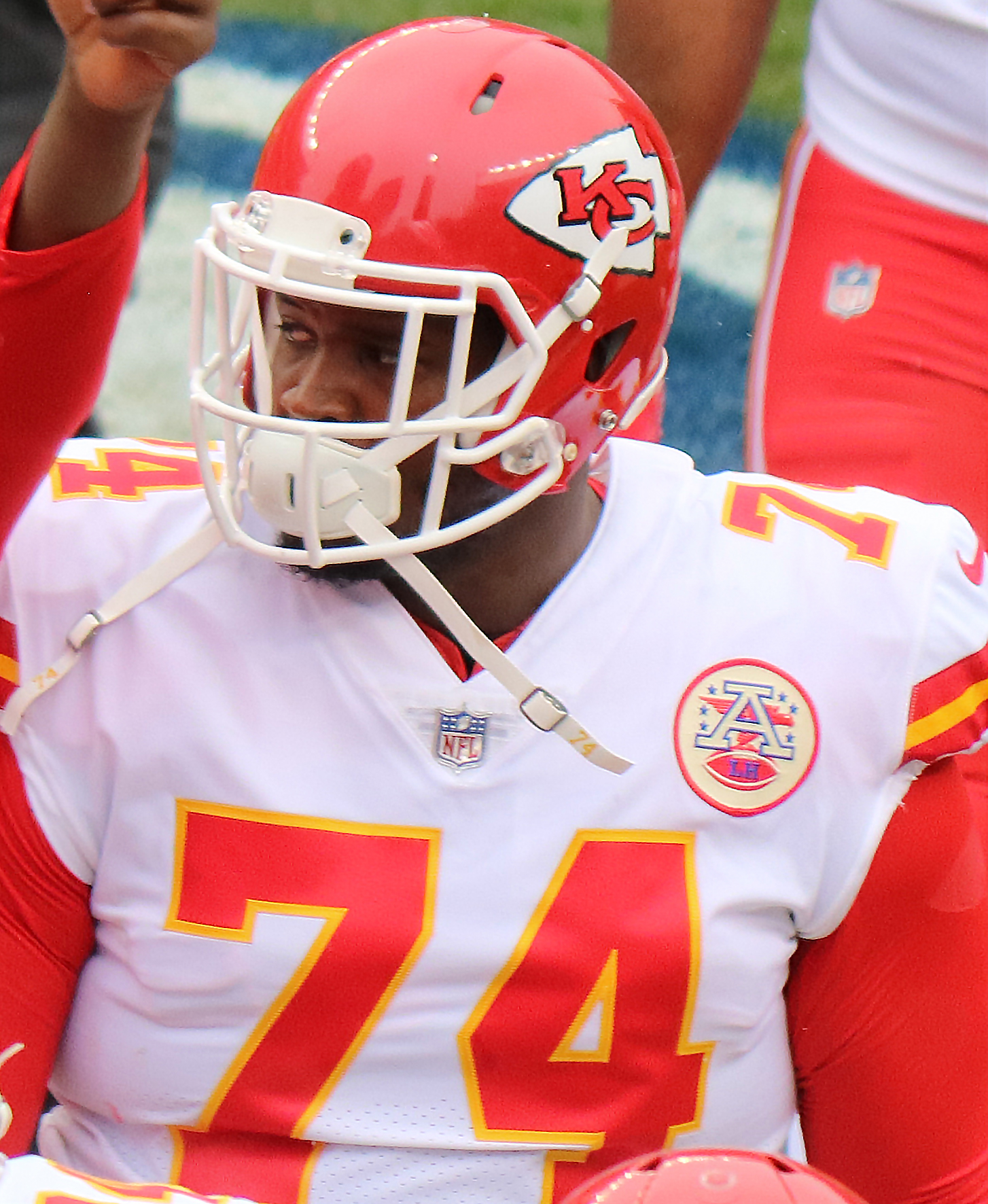 Justin Hamilton, a National Football League player.